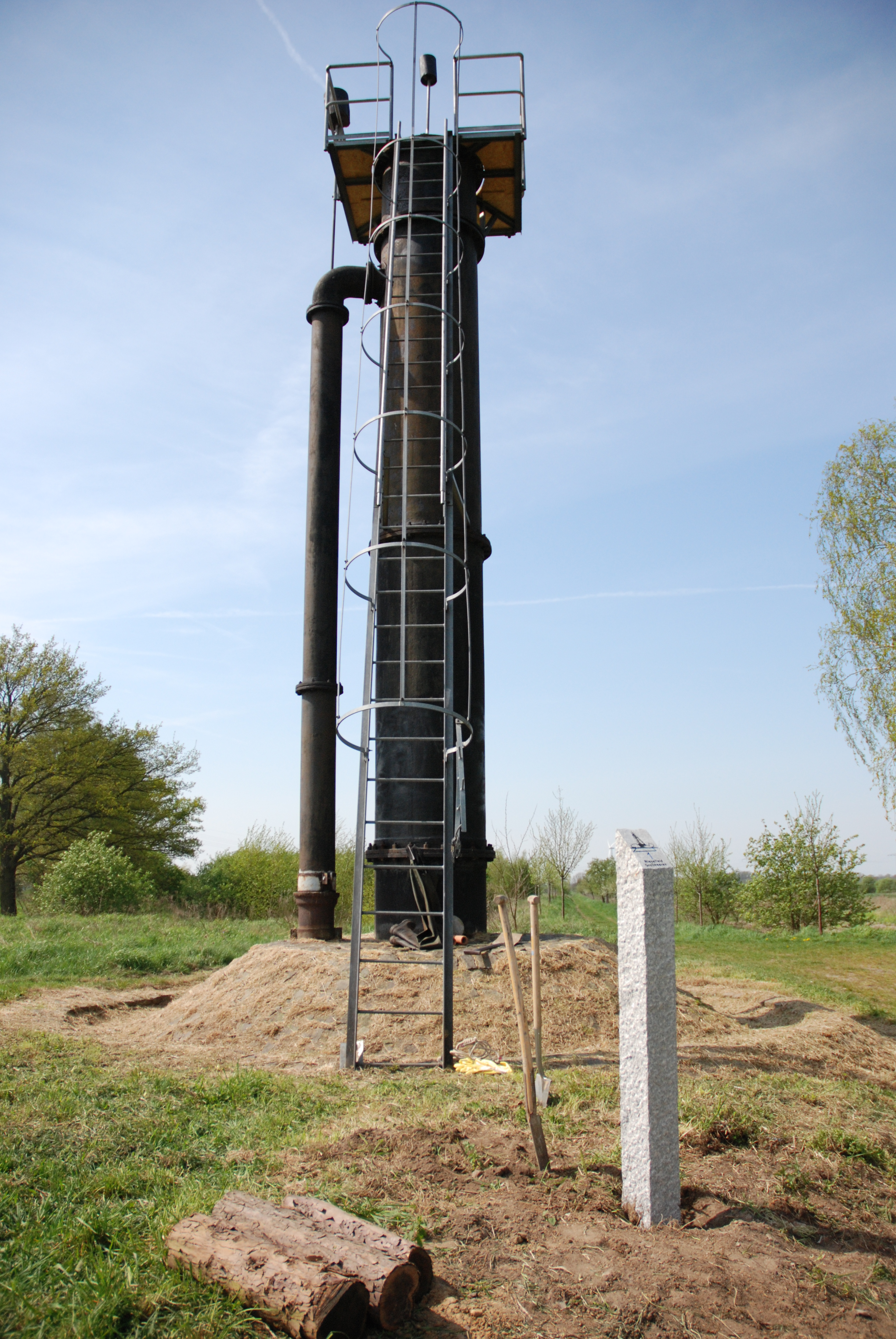 The picture shows the standpipe at the sewage farm Großbeeren where there also starts the nature trail "ways of water".